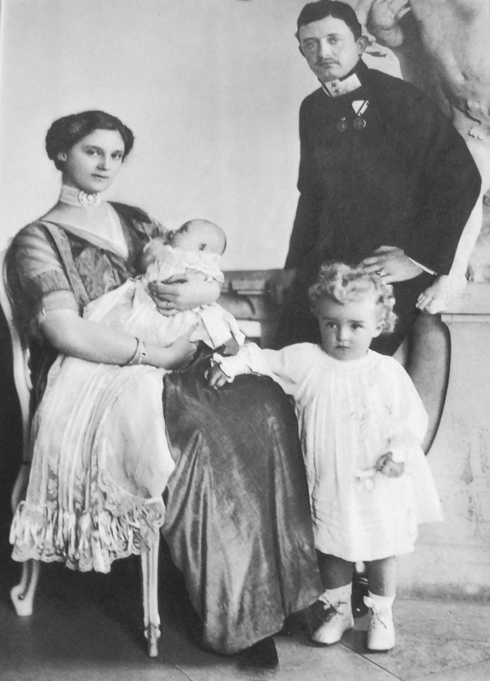 Charles of Austria, Zita of Bourbon-Parma and their older children, Otto (20 November 1912 – 4 July 2011) and Archduchess Adelheid (3 January 1914 – 3 October 1971)